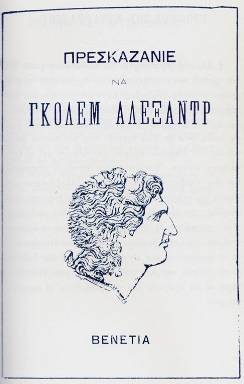 A prophecy of Alexander the Great issued in Venice by Atanas Macedonian. Alexander romance translated in Slav Macedonan by Greek national activists in 1845.